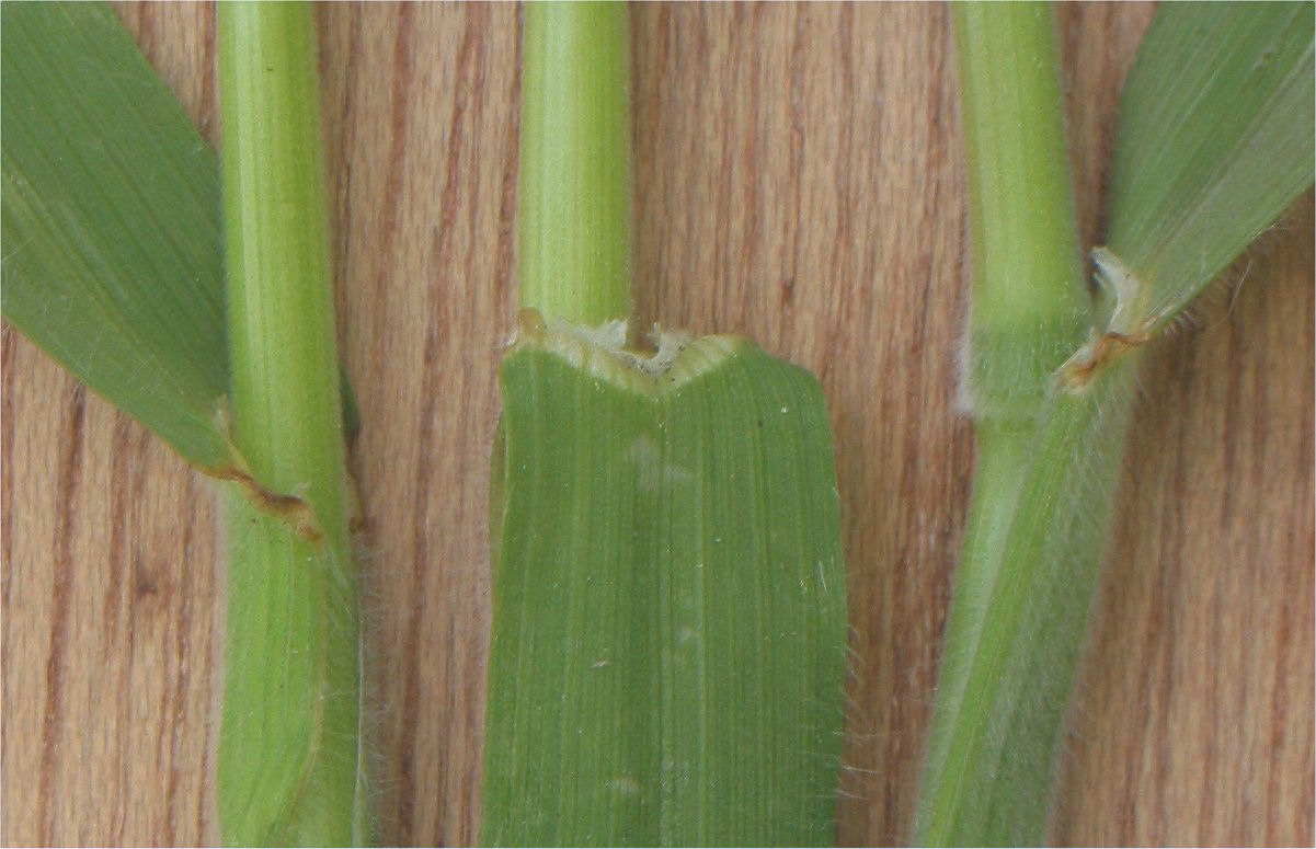 (Zachte dravik) Bromus hordeaceus syn. Bromus mollis) ligula